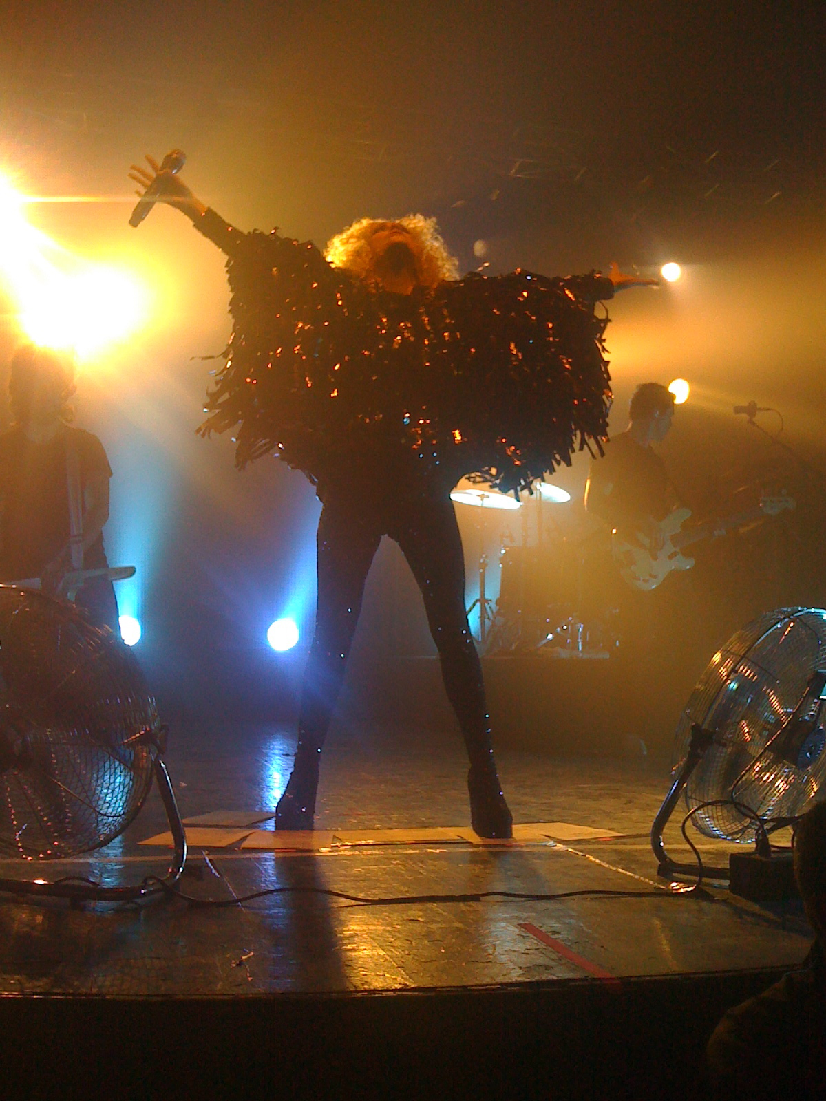 Goldfrapp performing live at Teatro La Cúpula, Santiago, Chile.